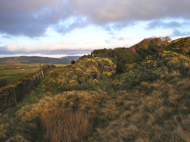 Gorse above Jenny Gill Gorse bushes lit up by the December afternoon sun.